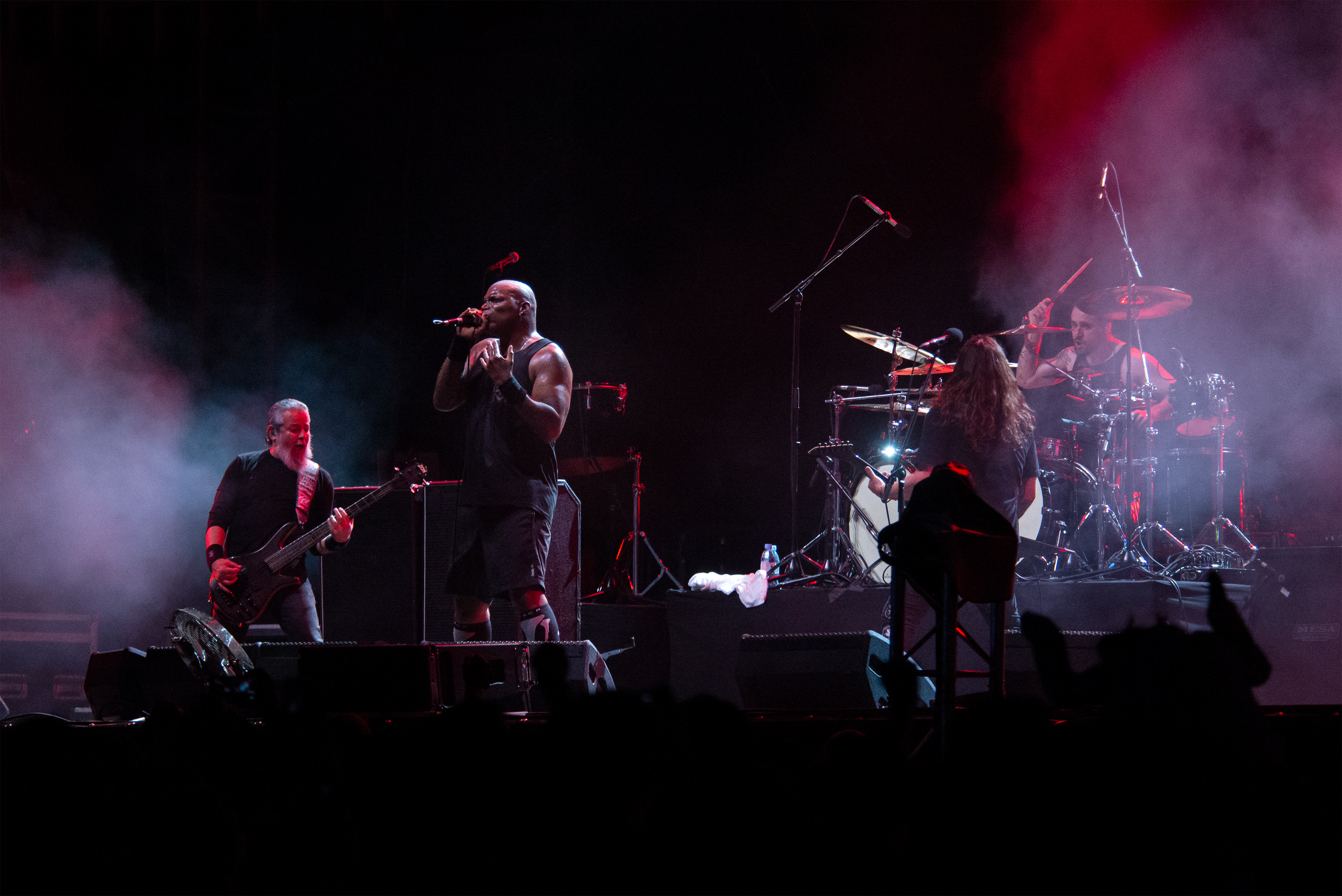 Sepultura show in Saint-Nazaire, France, july 2019.